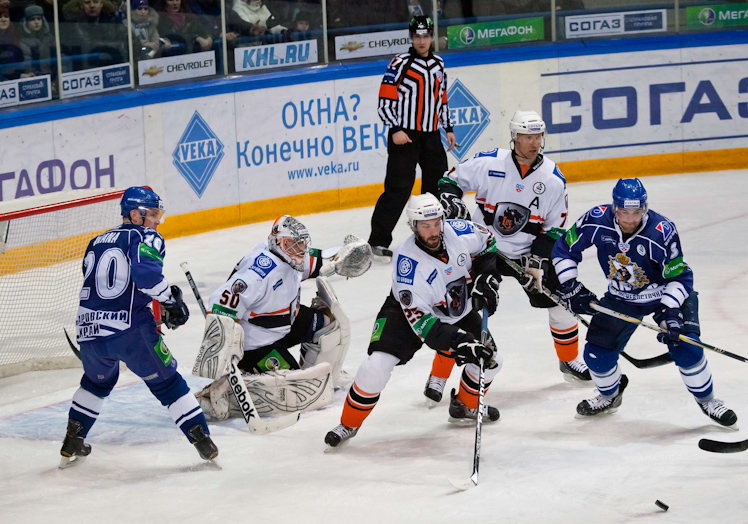 KHL game Amur Khabarovsk vs. Lev Poprad on January 10, 2012. Amur players in blue (LTR): Petr Vrána, Denis Grot. Lev players in white (LTR): Ján Laco, Grant Lewis, Martin Štrbák